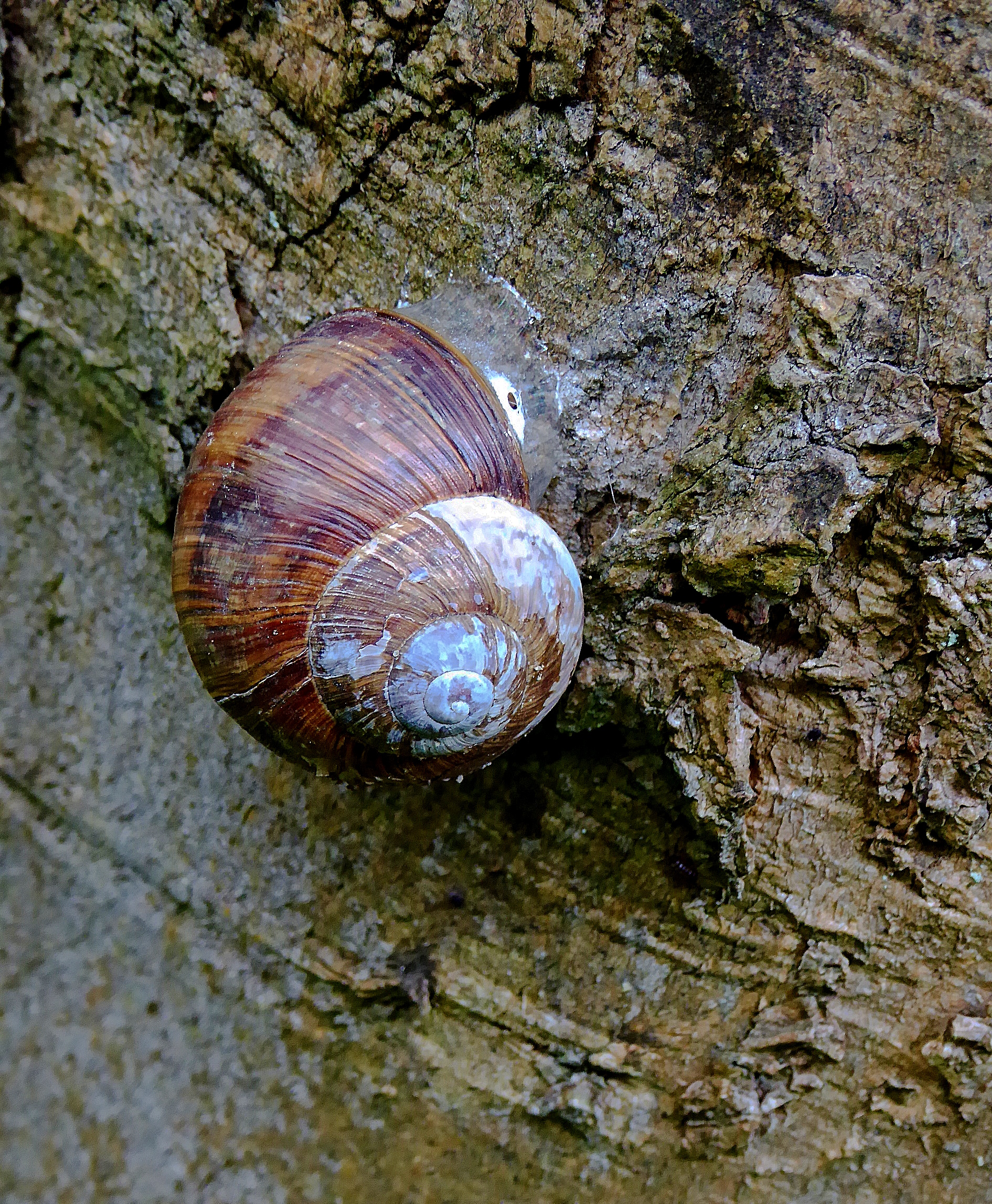 Roman snail (Helix pomatia) in a nature reserve and locality of European importance with named Valley of Anny. Photo location - Czechia, Pardubice Region, Skuteč town.